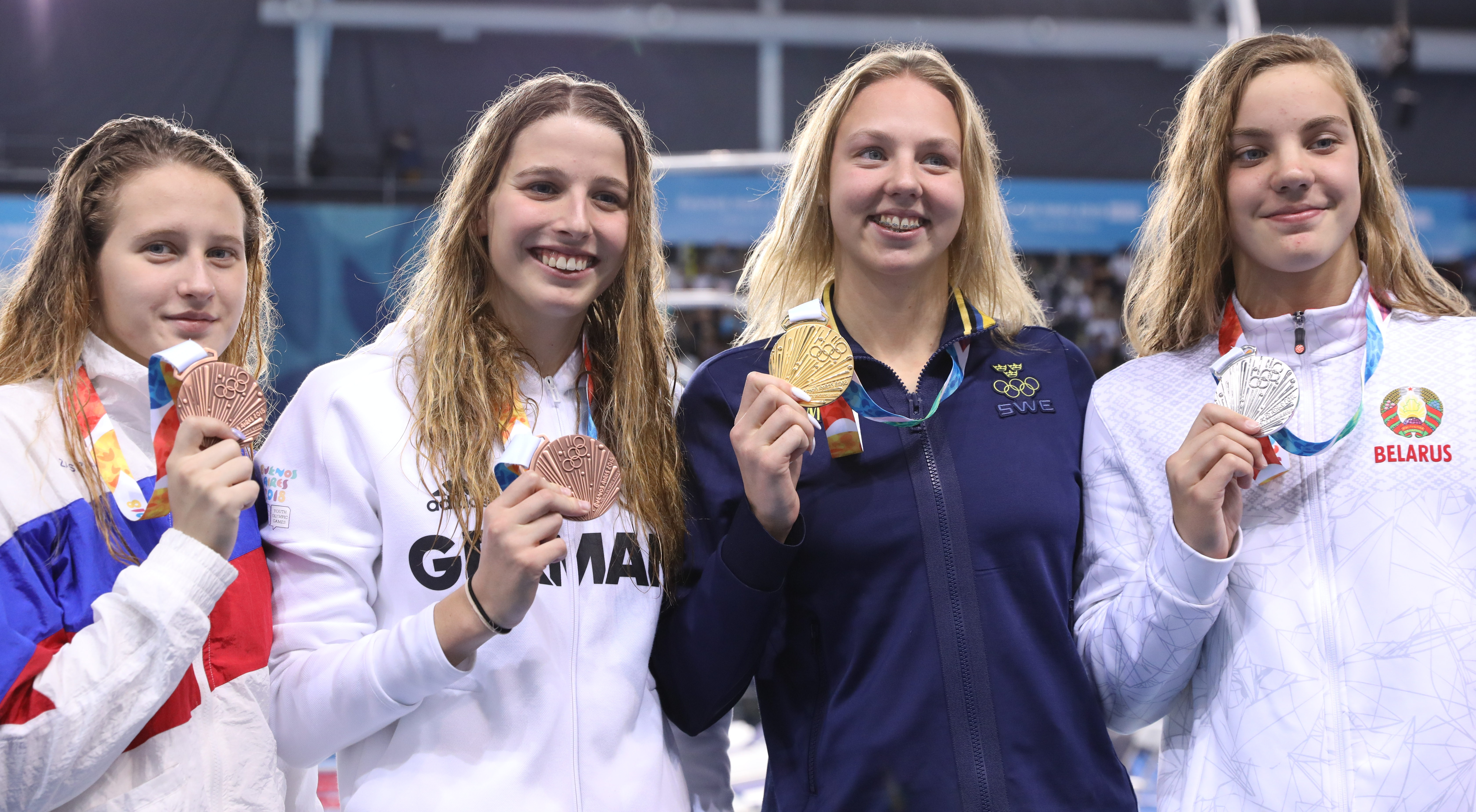 Girls' Swimming, 50 m Butterfly Final at the 2018 Summer Youth Olympics in Buenos Aires at the 10th October 2018